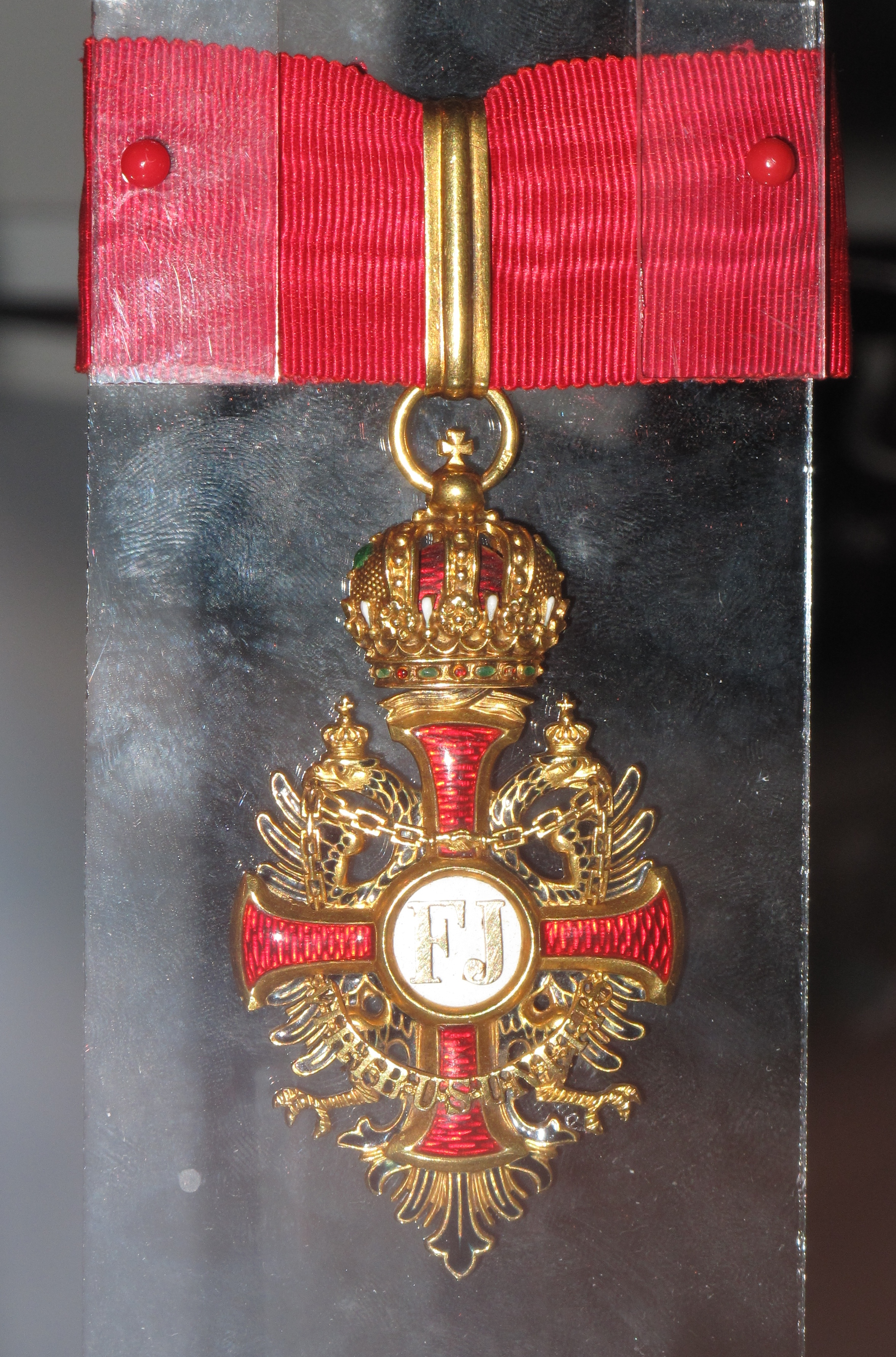 Order of Franz Joseph, 2nd class